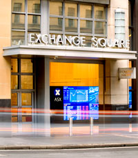 Picture of entrance to Sydney Exchange Square building